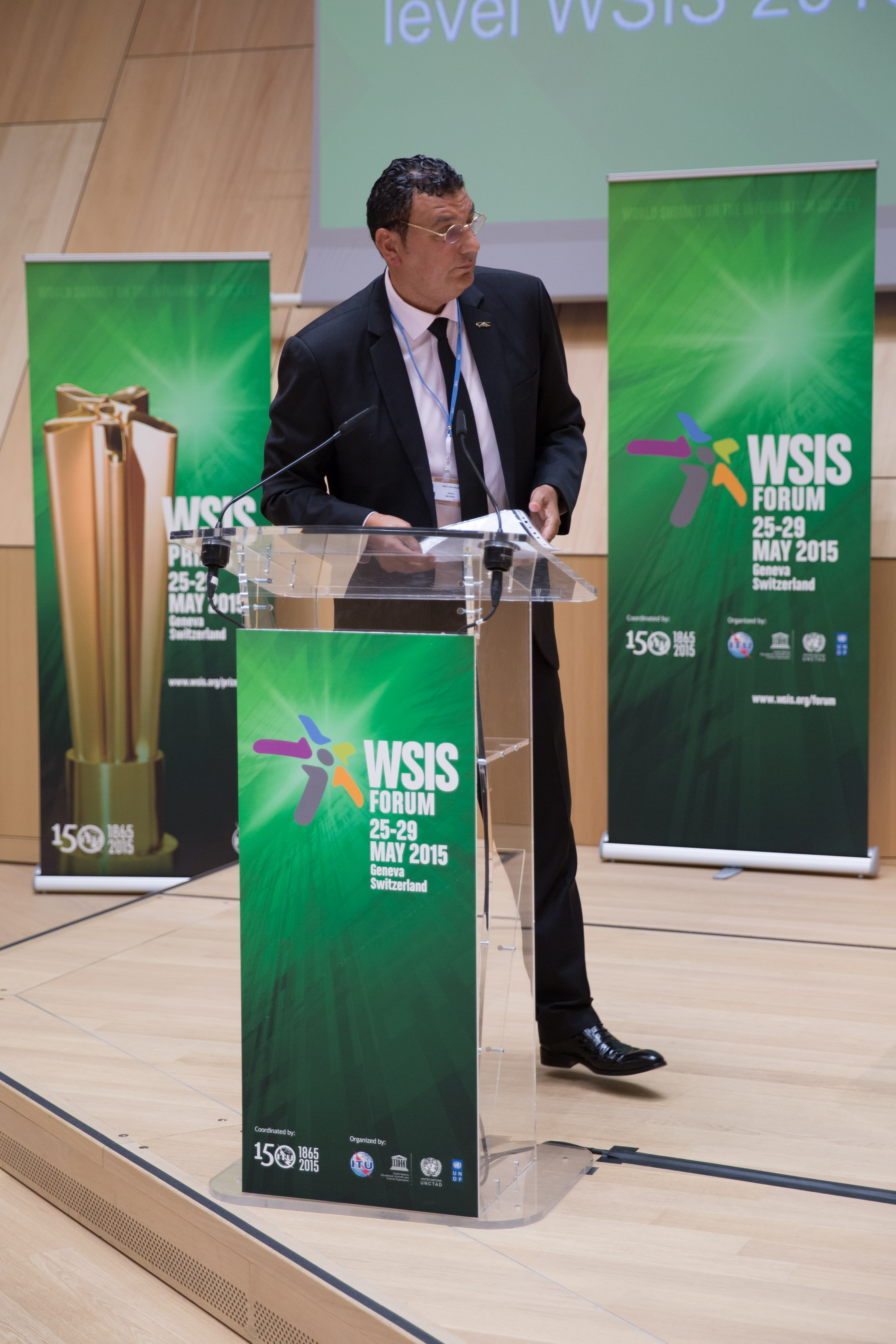 Nizar Zakka speaking at the World Summit on the Information Society (WSIS) Forum 2015.